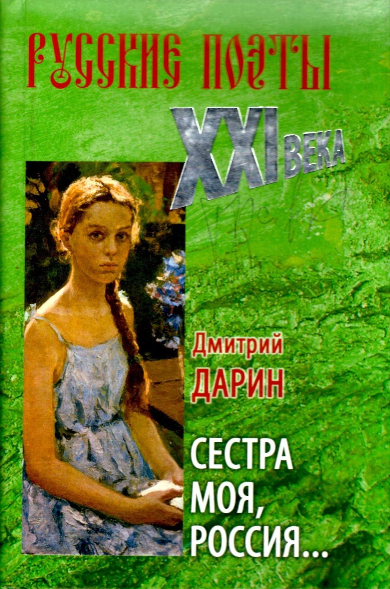 Book cover: Dmitry Darin «My sister, Russia»